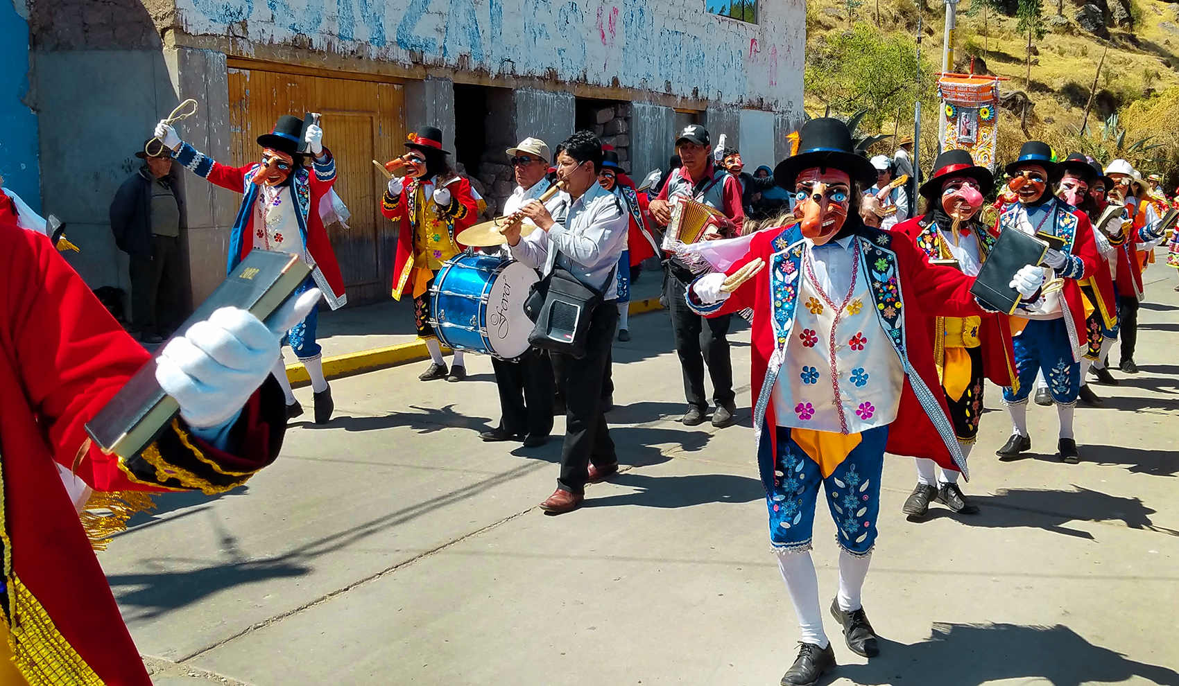 Siqllas Chinchaypujio Dancers in the Virgen Asunta Parade